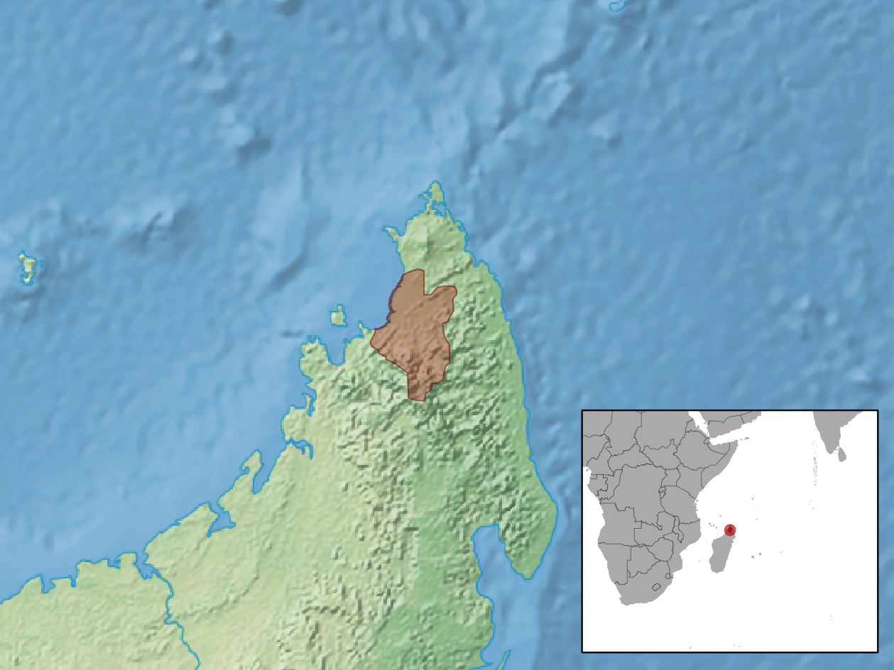 geographic distribution of Amphiglossus elongatus